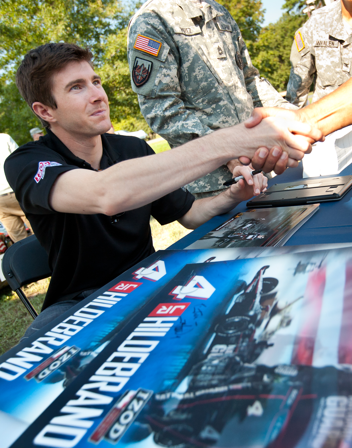 American racecar driver J.R. Hildebrand shakes a Soldier's hand during a meet and greet at Fort George G. Meade, Maryland, Sept. 1, 2011. Hildebrand spent more than an hour signing autographs and talking with Soldiers from the Warrior Transition Unit and their families. (Photo by Nate Pesce)